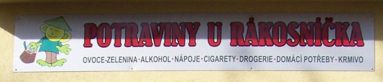 Prague-Slivenec, Czech Republic. Pod rybníkem street, a Vietnamese shop.